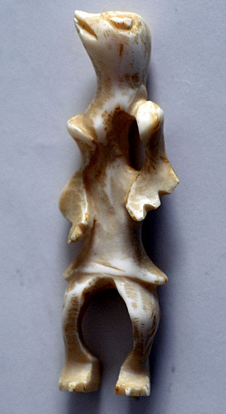 Tupilak from Greenland